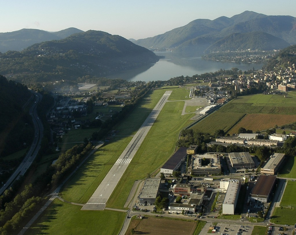 Lugano Airport from the air to the north. For more information, see wikipedia article Lugano Airport.